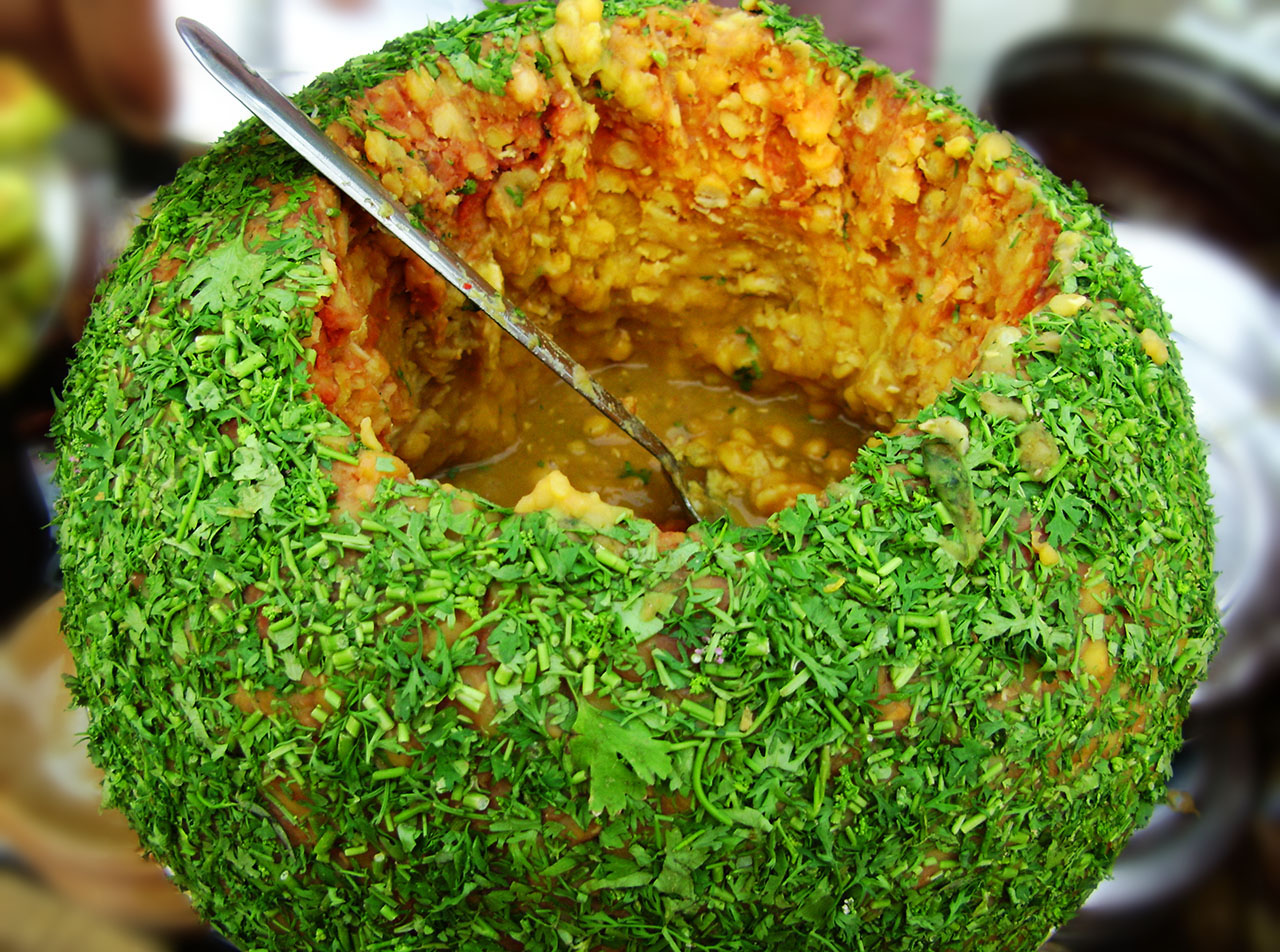 Ragda, a stew-like Indian dish made with yellow peas and haldi (turmeric powder) is contained in a big panipuri covered with herb leaves.